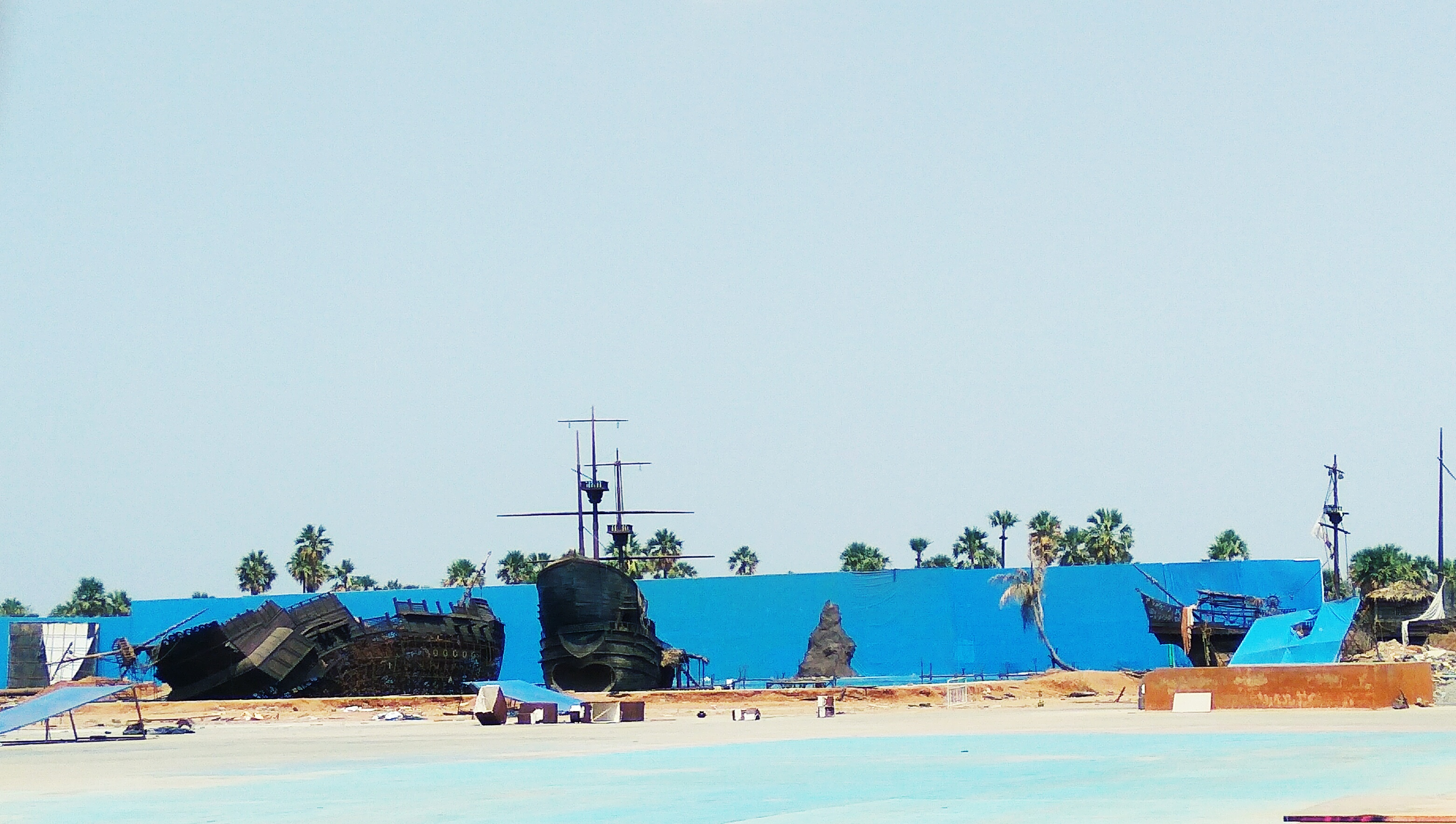 The abandoned set of upcoming movie Kunjali Marakkar at Ramoji Rao Film city